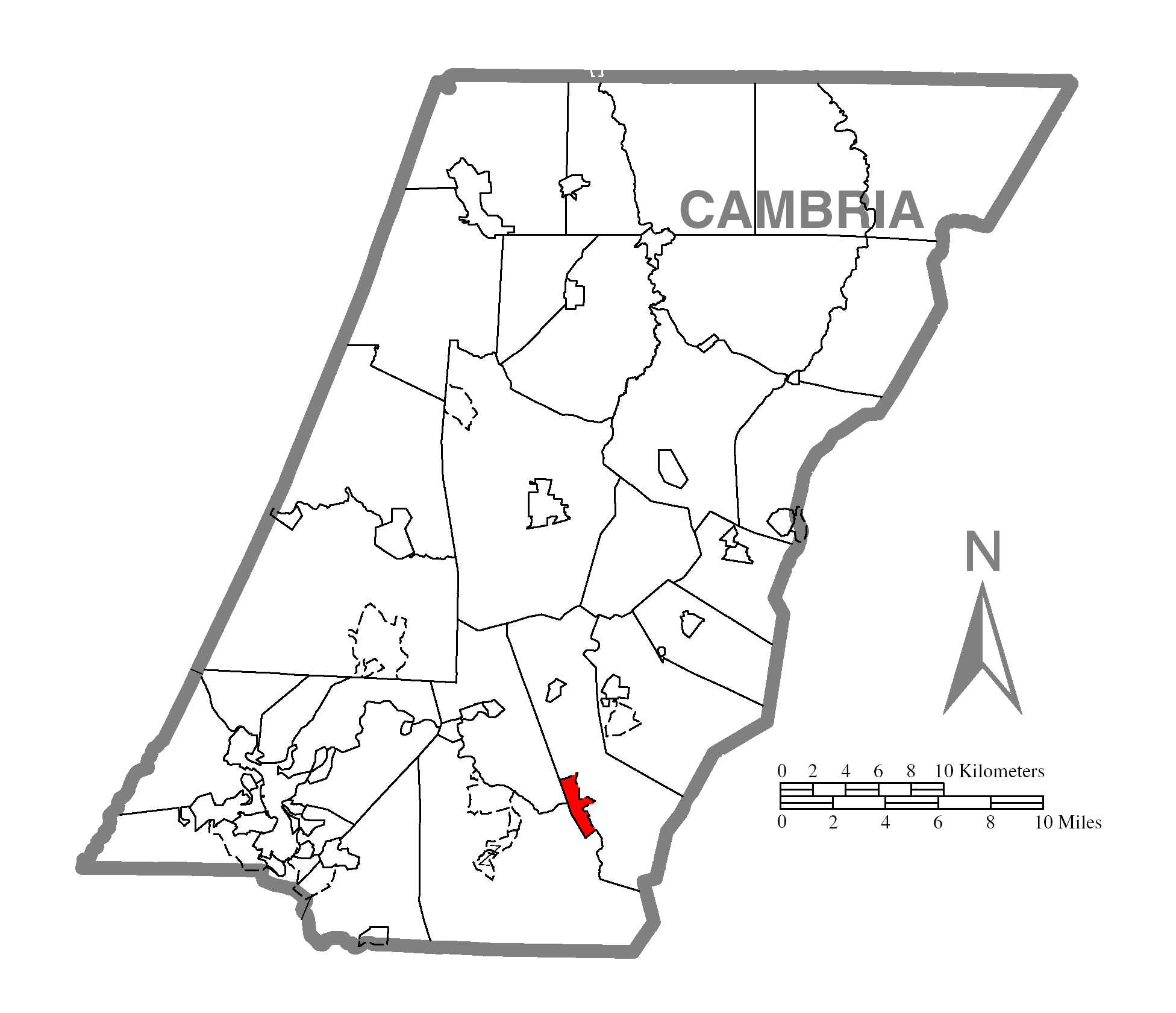 A map of Cambria County showing Beaverdale-Lloydell, Pennsylvania (alternate) highlighted on the map.